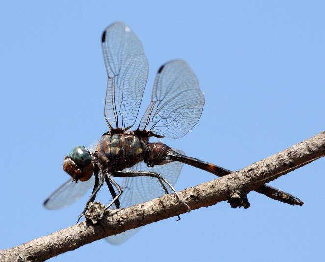 Male Zygonoides fuelleborni (Southern Riverking); Pongola River, Ithala Game Reserve, KwaZulu-Natal. OdonataMAP record no. 937